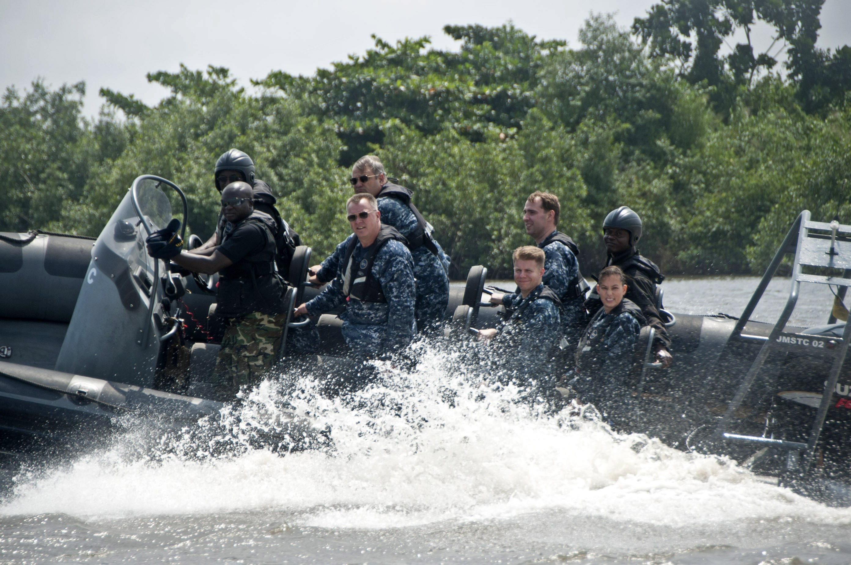 LAGOS, Nigeria (Aug. 8, 2011) Rear Adm. Kenneth J. Norton, deputy chief of staff for Strategy, Resources and Plans at U.S. Naval Forces Europe-Africa, along with other U.S. Navy personnel, ride with a Nigerian visit, board, search and seizure team during Africa Partnership Station (APS) West. APS is an international security cooperation initiative, facilitated by Commander, U.S. Naval Forces Europe-Africa, aimed at strengthening global maritime partnerships through training and collaborative activities in order to improve maritime safety and security in Africa. (U.S. Navy photo by Mass Communication Specialist 3rd Class Ian Carver/Released)